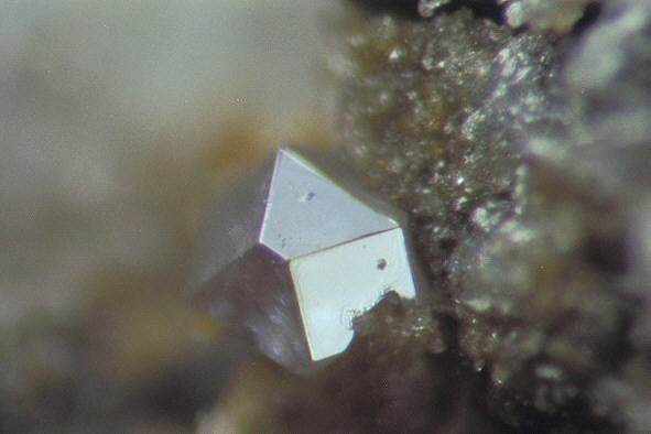 Chlorargyrite Locality: Theuerdank Mine, St Andreasberg, St Andreasberg District, Harz, Lower Saxony, Germany Original description: Chlorargyrite crystal (very rare) in combination with cube-octahedron within a quarz-geode. Size of crystal: approx. 1,5mm.